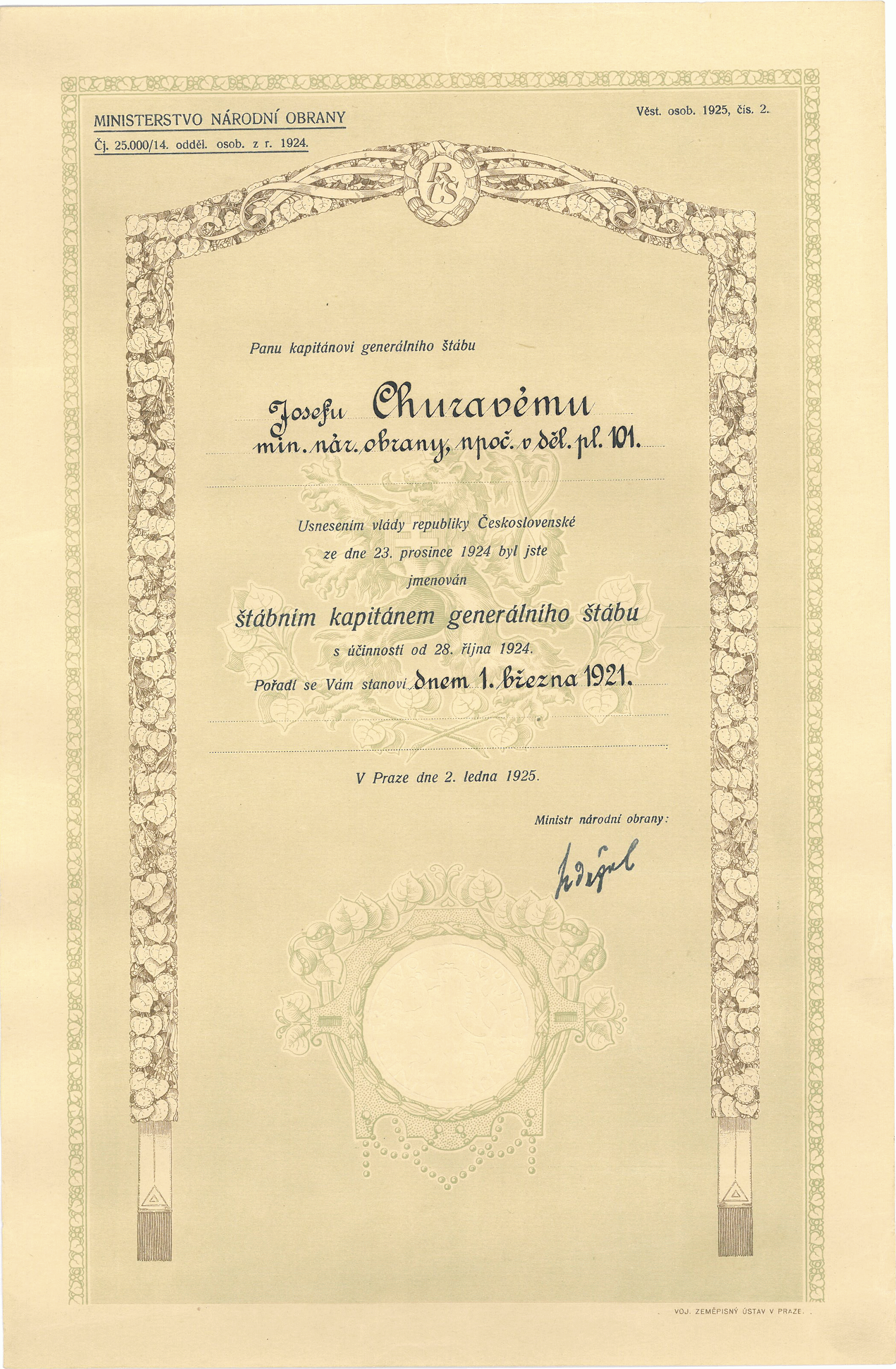 A document that announces the appointment of Josef Churavý as the "captain of General Staff". By order of the Government of the Czechoslovak Republic on 23 December 1924: Josef Churavý was appointed to the position of the "captain of General Staff" of the "General Staff" (with effect from 28 October 1924). The rank is arranged for you since the 1-st March 1921. In Prague on 2 January 1925. Signed by: Minister of National Defense František Udržal